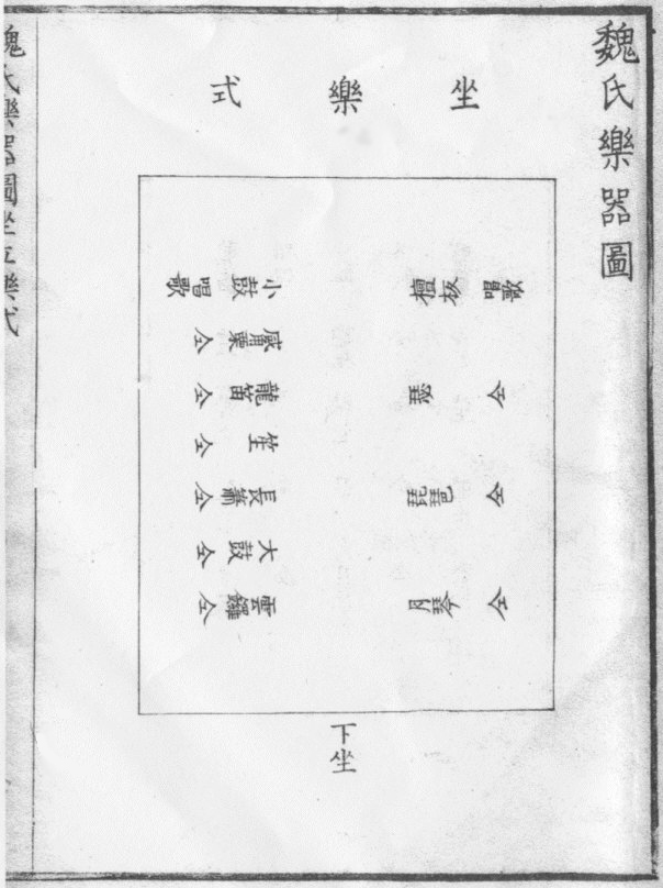 A page of the book "Gisi-Gakki-Zu"